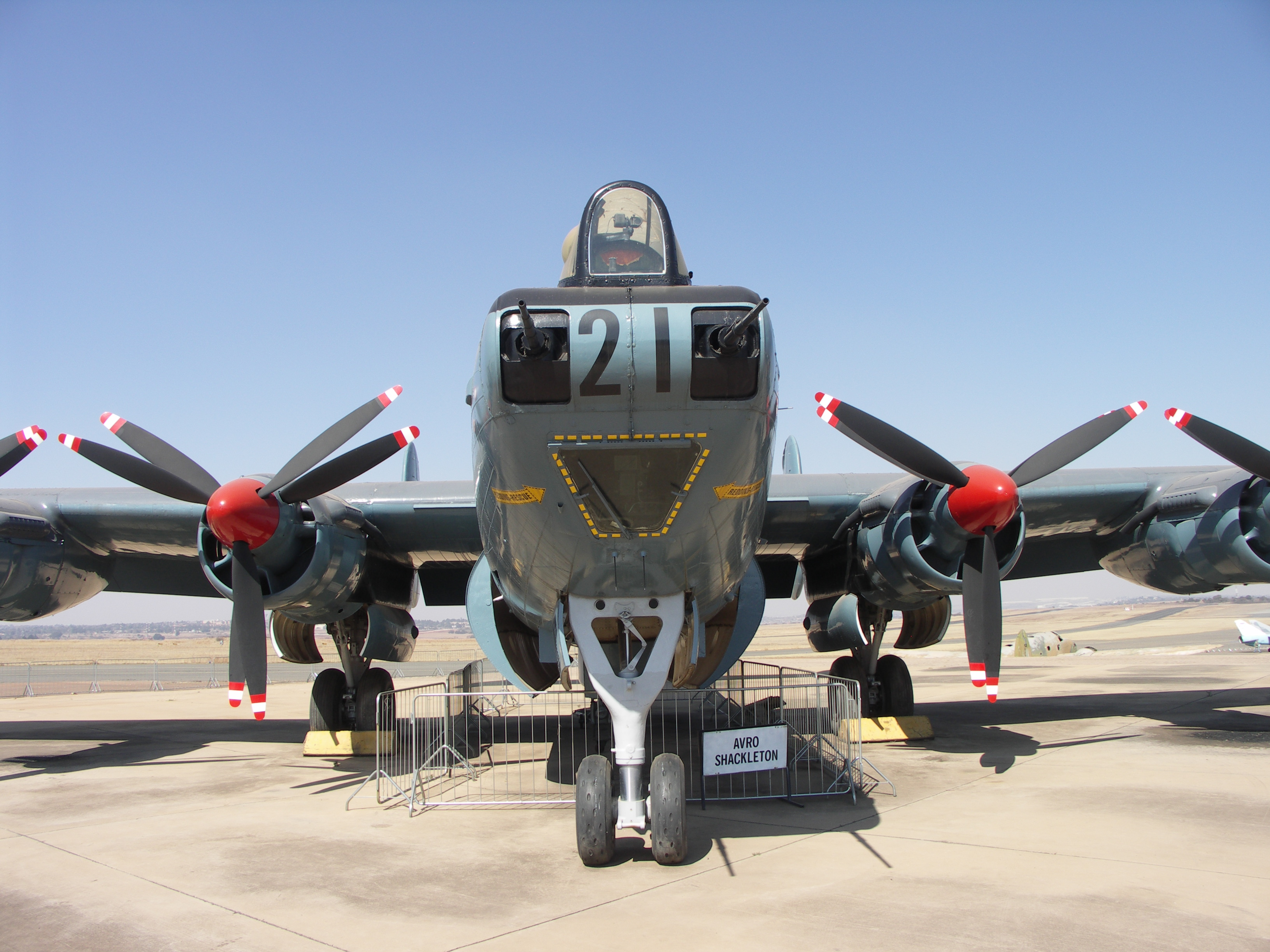 Avro Shackleton with 2 Hispano-Suiza HS.404 cannons in the nose South African Air Force Museum, Swartkop